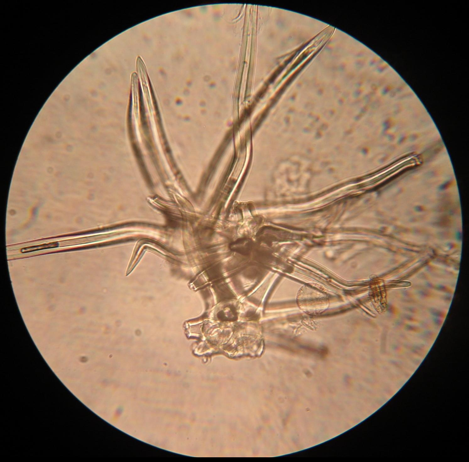 Dense-flowered Mullein (Verbascum densiflorum Bertol.) trichomes viewed under a microscope at 40x magnification.